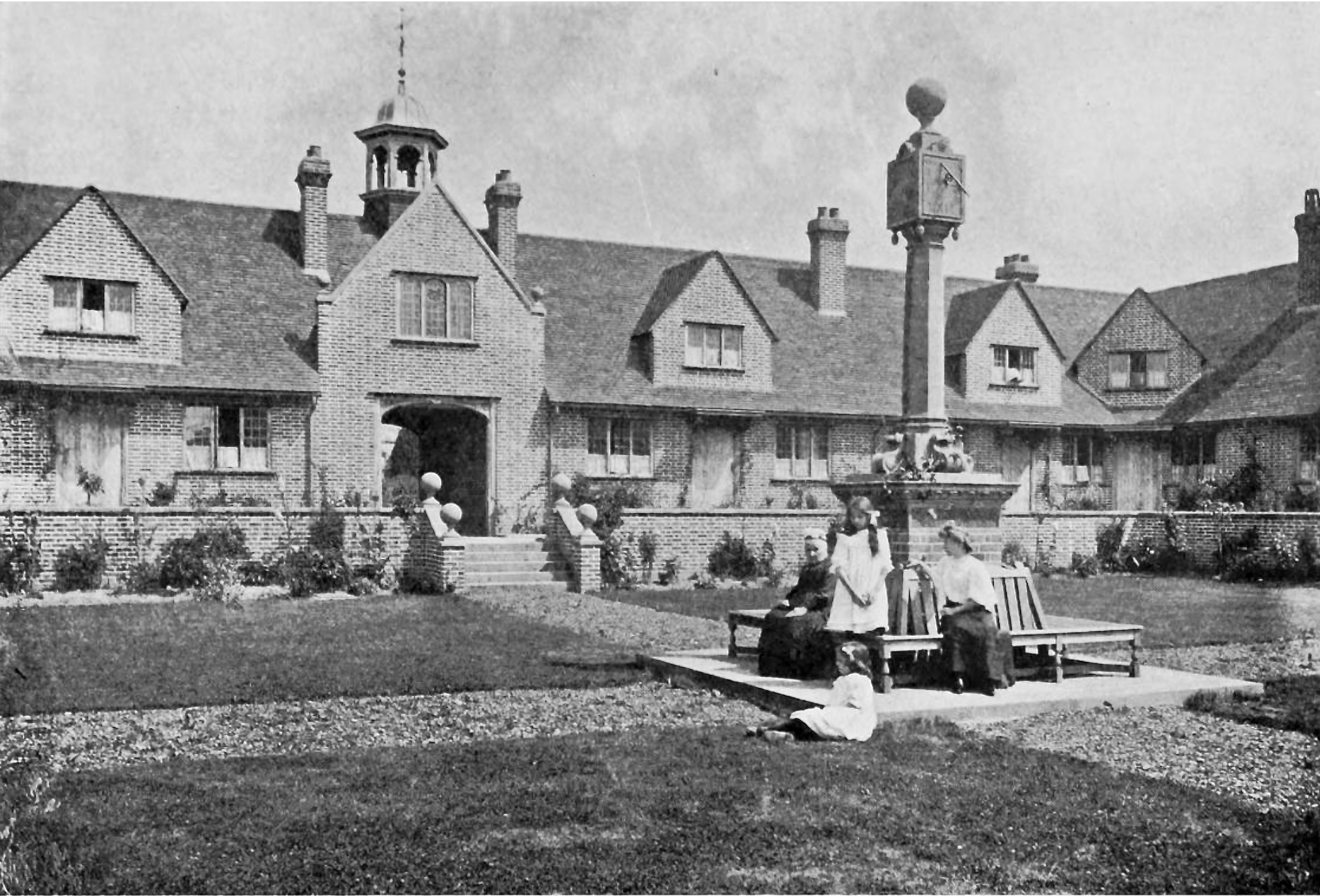 Photograph of the quadrangle at Sidney Hill Cottage Homes by Thomas Raffles Davison looking towards the central archway and sundial